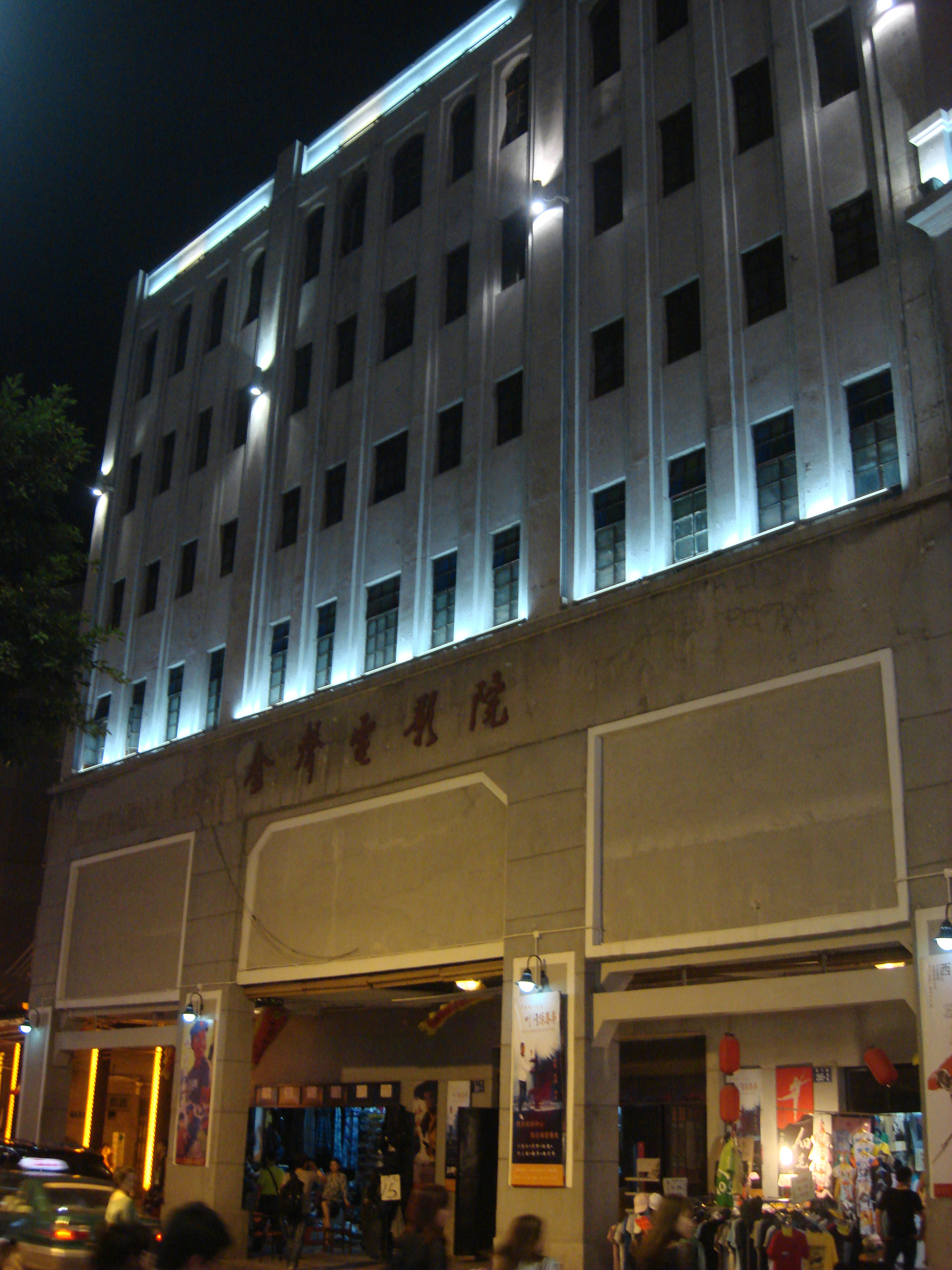 The Grand Theatre in Sai Kwan, Canton, China.